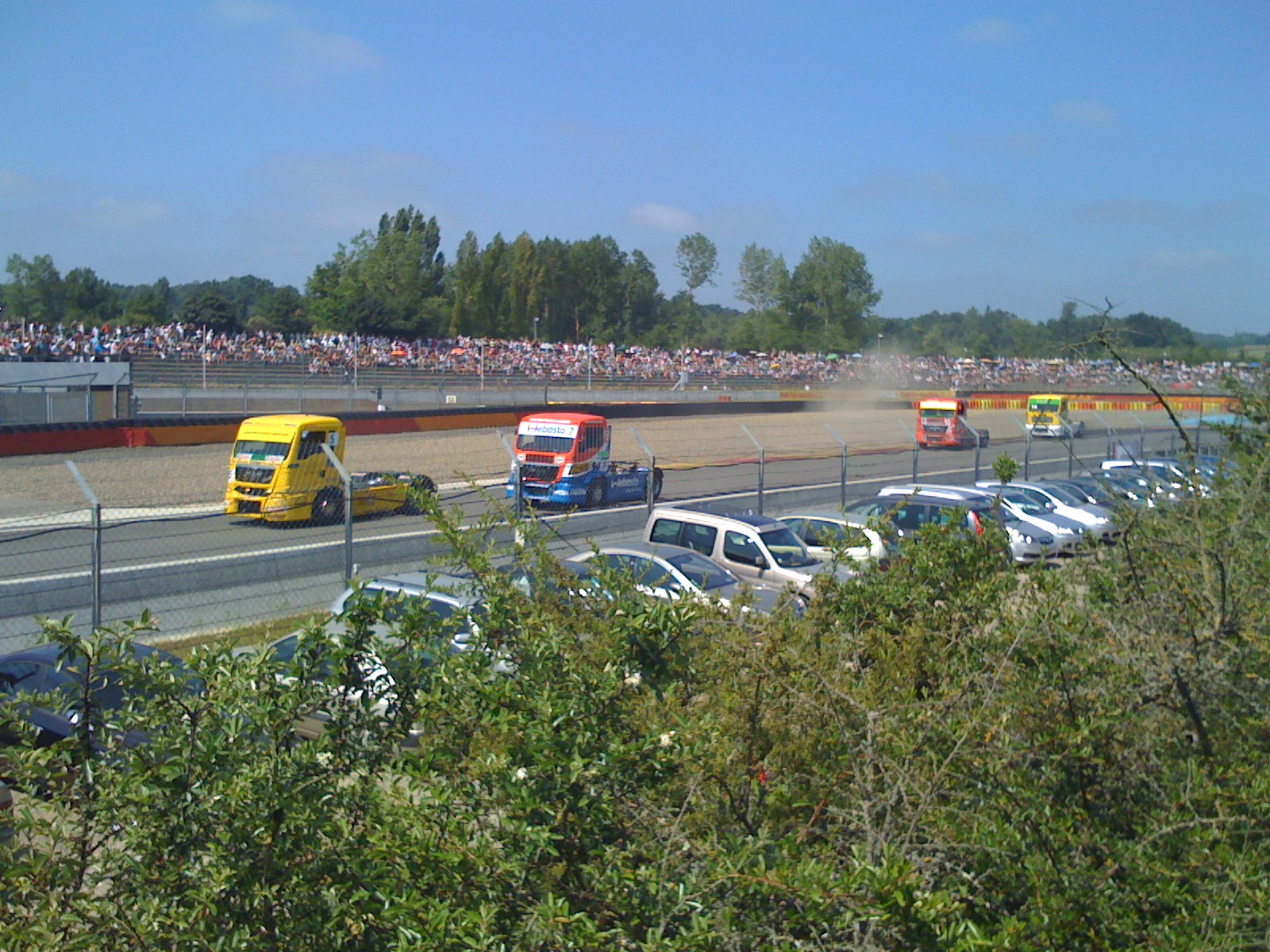 action in the european truck race